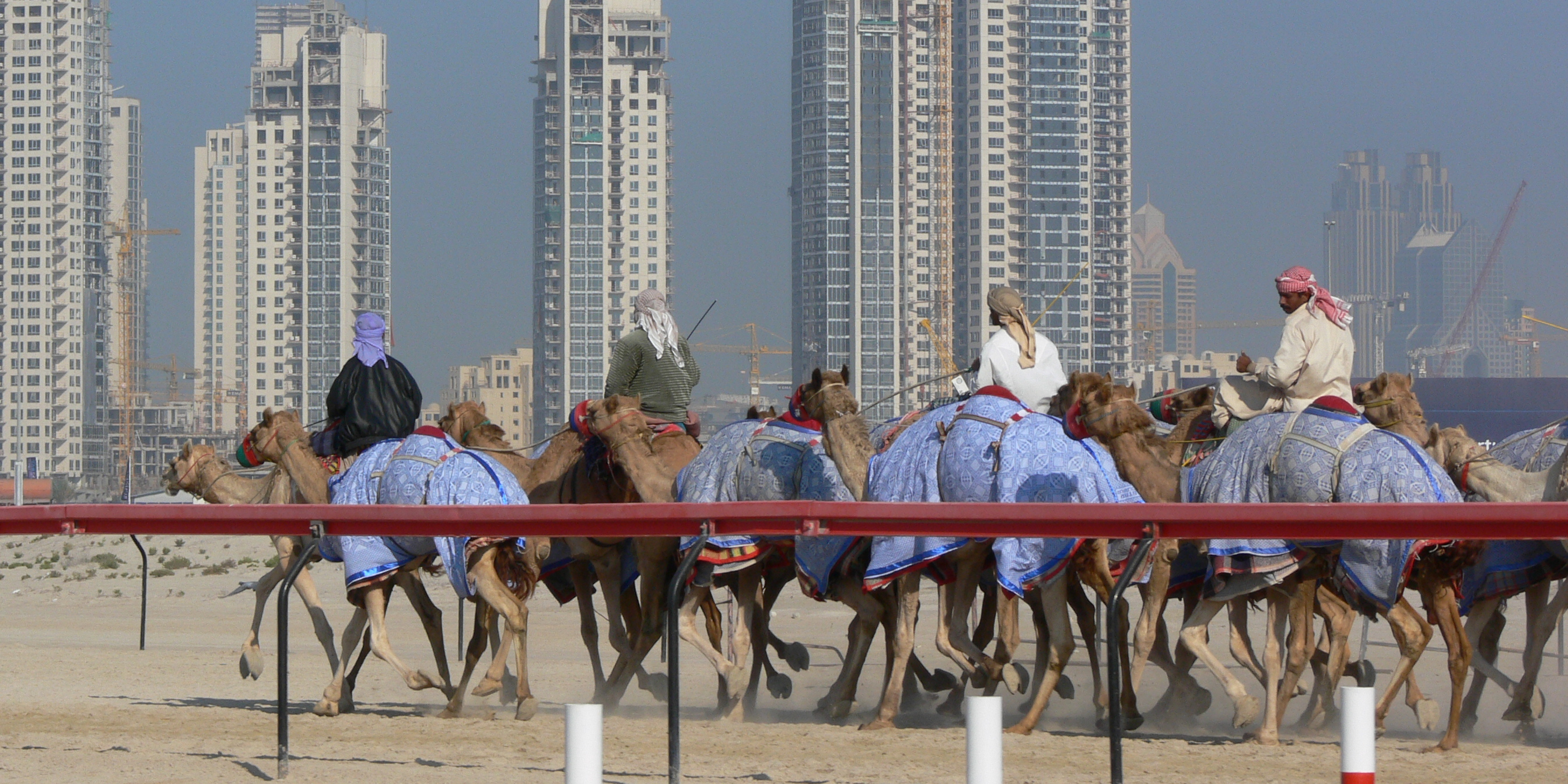 Camel race in front of the Dubai towers